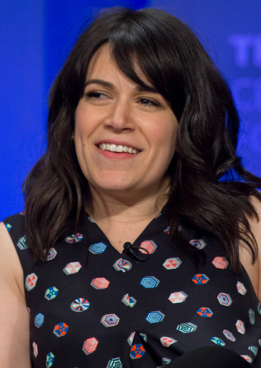 Abbi Jacobson at PaleyFest 2015 - A Salute to Comedy Central